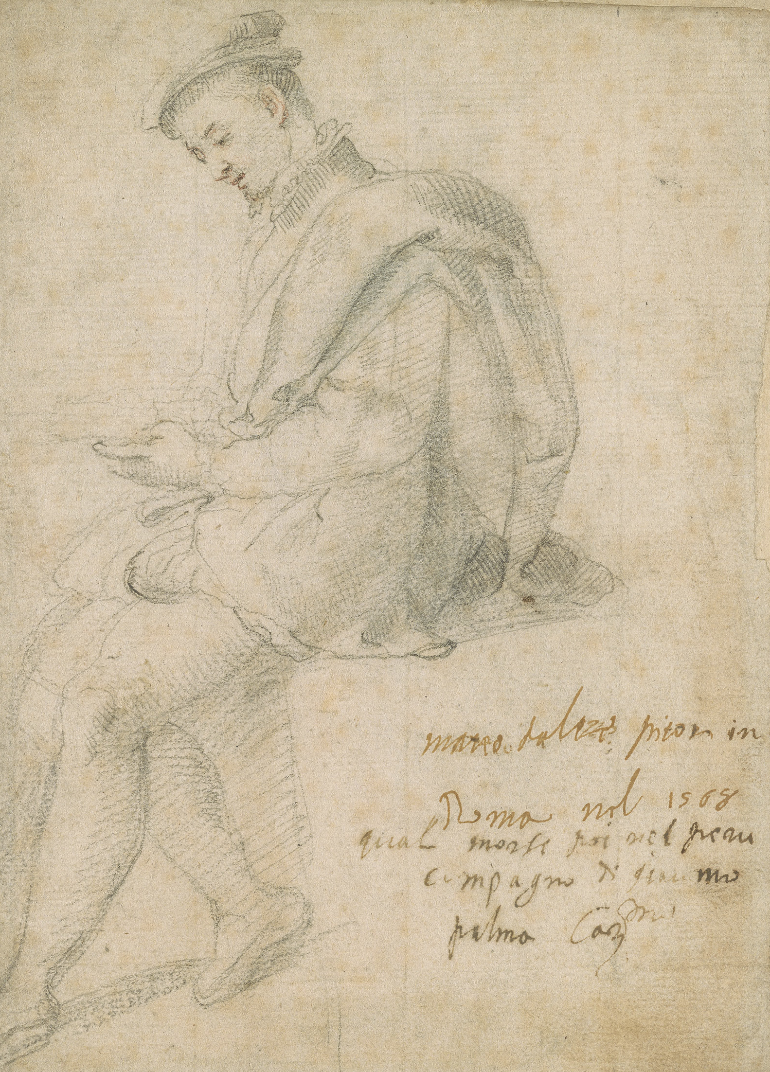 The Painter Matteo da Lecce black and red chalk on paper 19.5 x 13.9 cm 1568 inscribed b.r: Mateo da lezia pictor in / Roma nel 1568 / qual morse poi nel peru / compagno di jiacomo / palma Cazmo